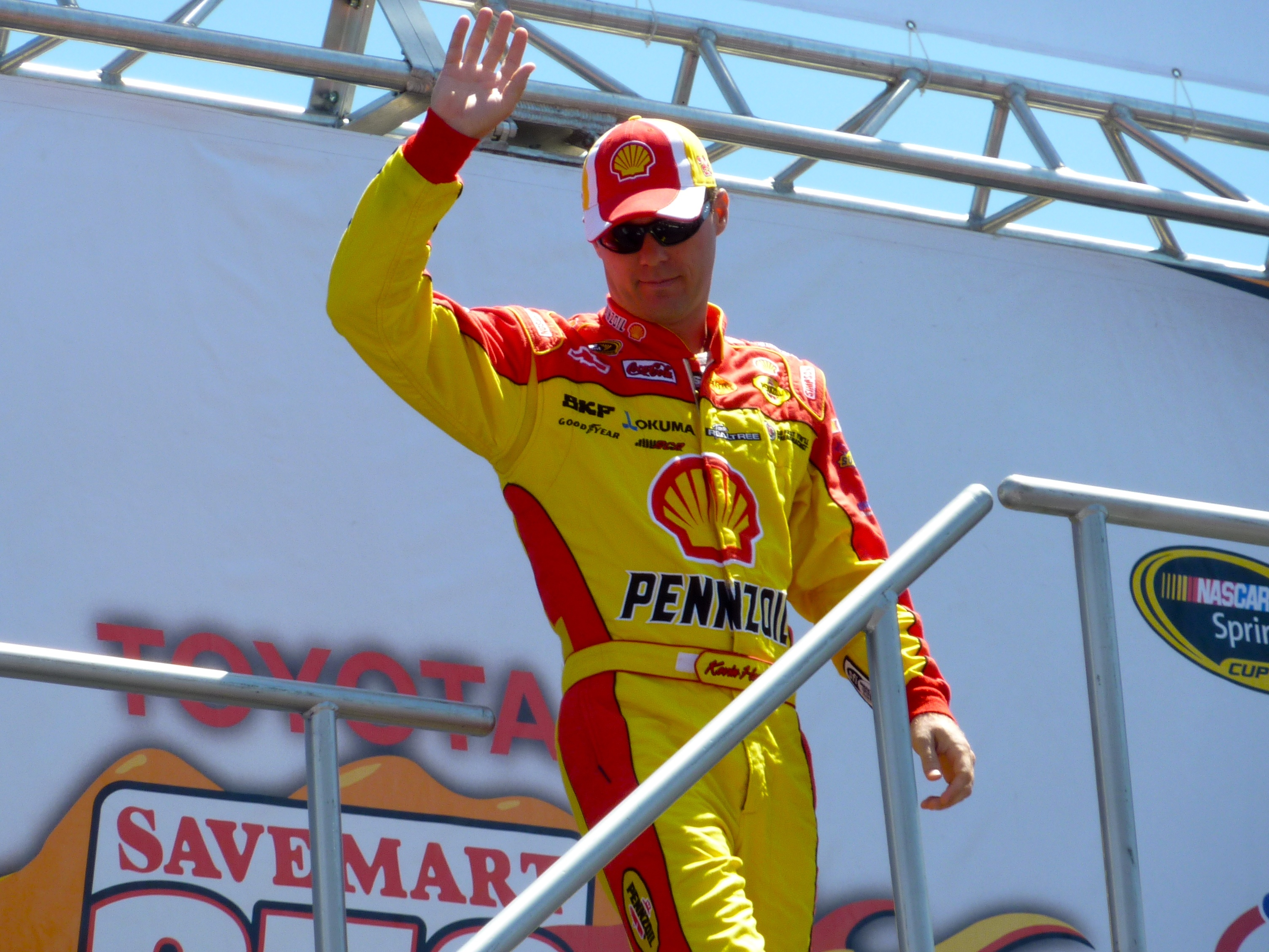 Kevin Harvick at Infineon Raceway in 2010